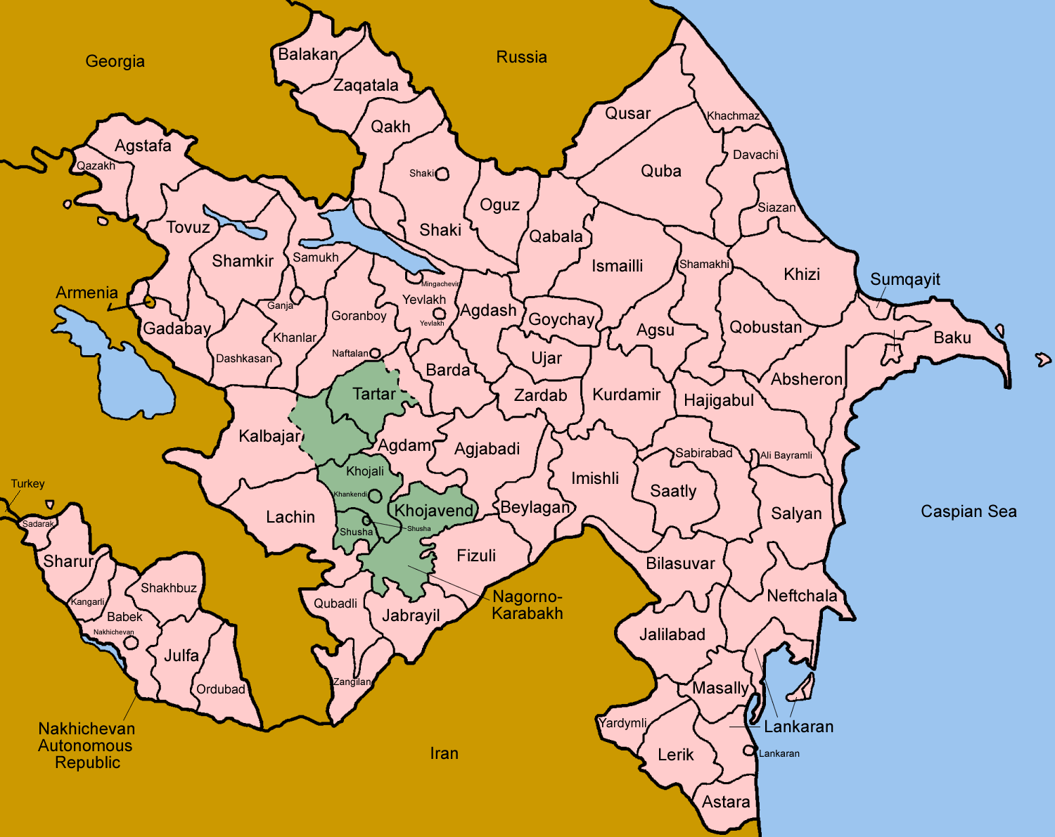 Map of the rayons and other districts of Azerbaijan, named in English for use for printing or for those who don't want to use the numbered map. Made by User:Golbez.